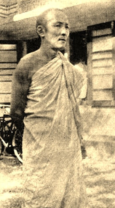 Photograph of Venerable Tibet Sikkim Mahinda Thera (c.1901-1951). සිංහල: ටිබෙට් ජාතික සිකීම් මහින්ද හිමි.